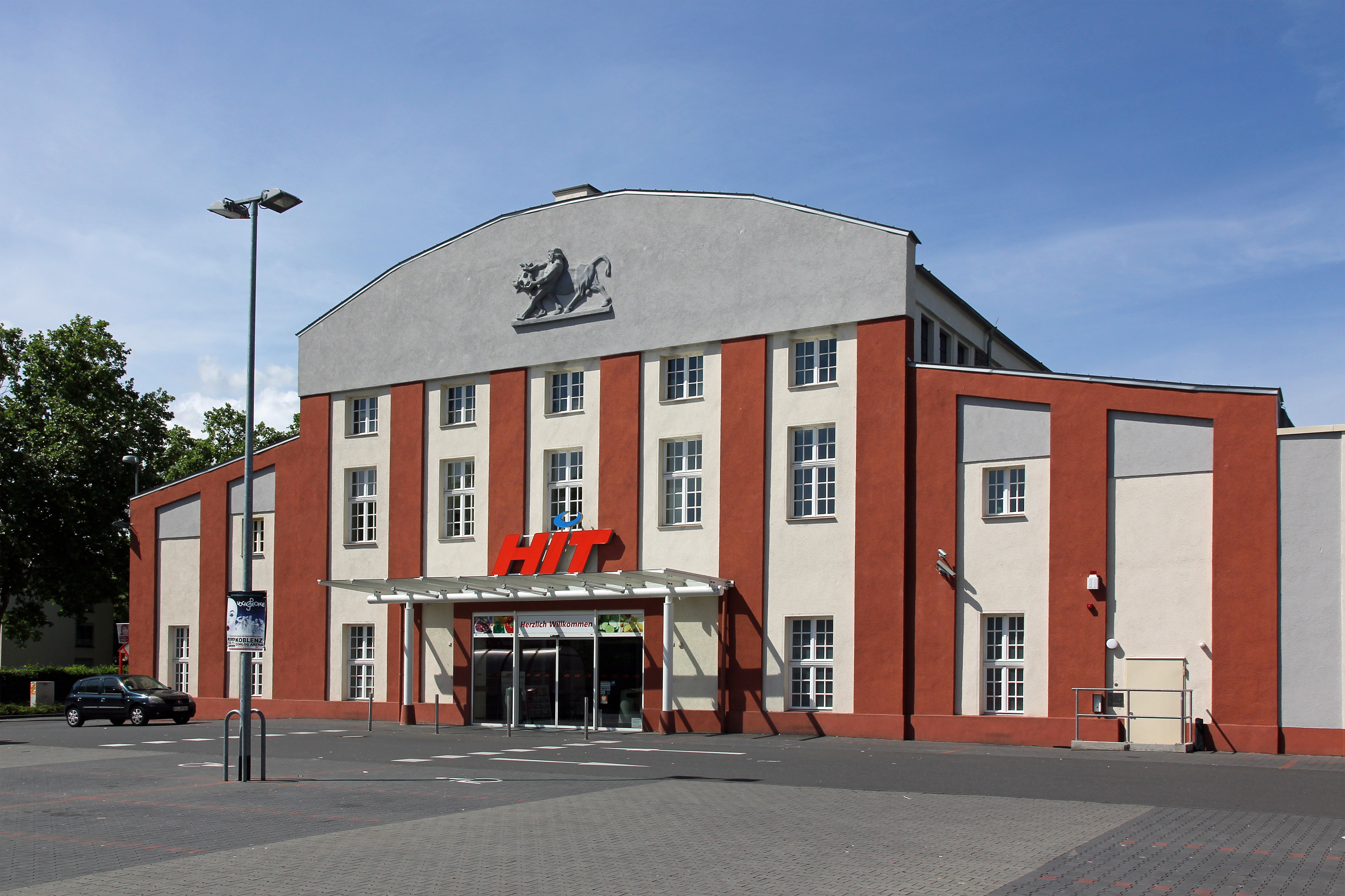 Former Slaughterhouse in Koblenz